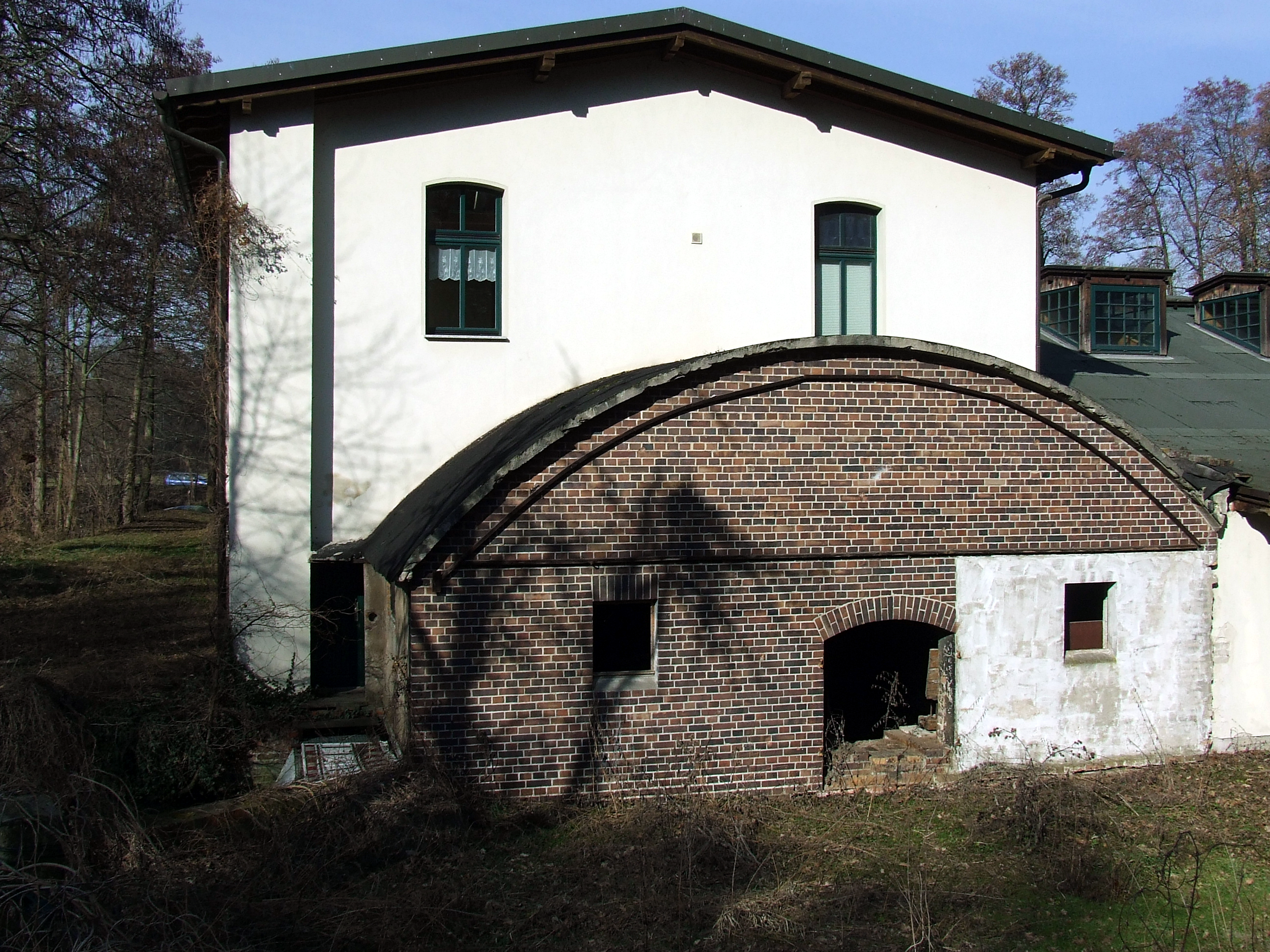 The so-called Westgebäude of Große Mühle Madlow, postal address Kiekebuscher Weg 14. This view shows the old waterwheel housing.